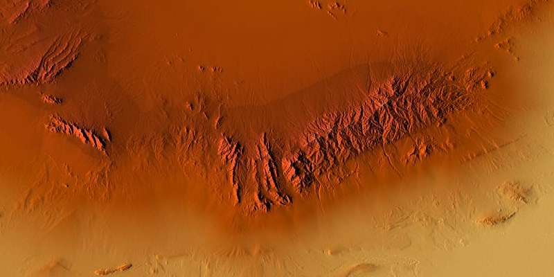 Topography of Torud–Chah Shirin Mountains, Semnan Province, Iran Srpskohrvatski / српскохрватски: Topografija Torudsko-čahširinskog masiva u Semnanskoj pokrajini u Iranu